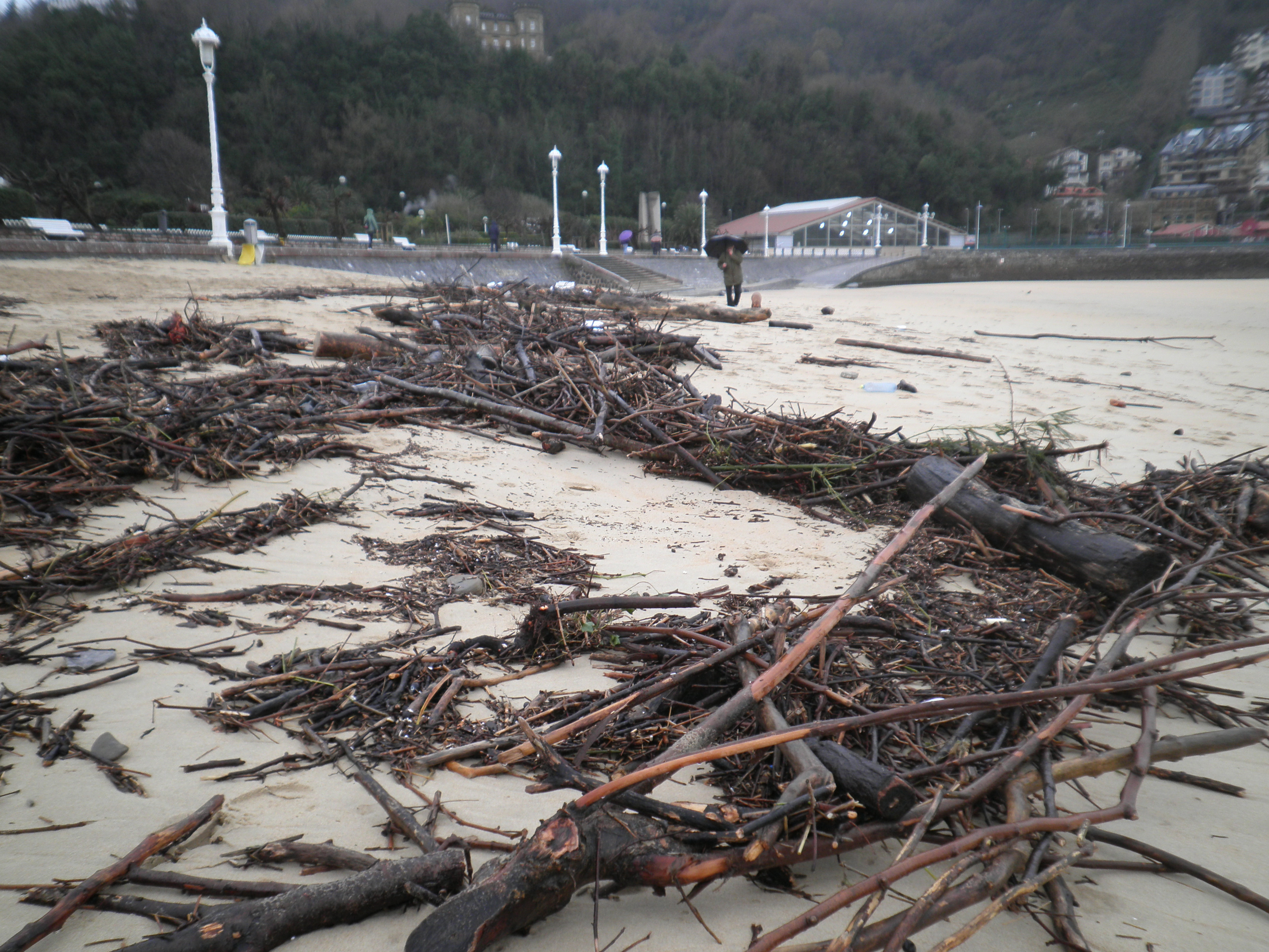 Drift wood form floods in Ondarreta beach.